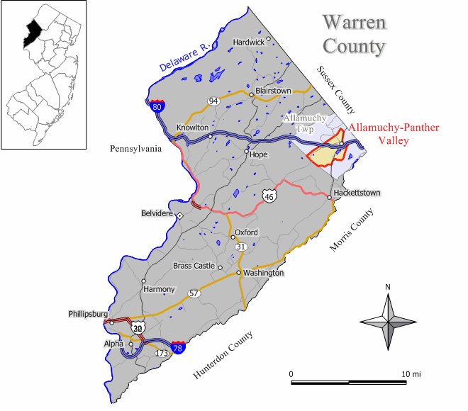 Original work by Jim Irwin, December 2005. Map of Allamuchy-Panther Valley CDP in Warren County.